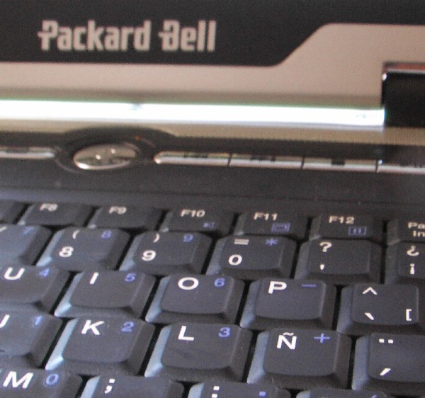 Spanish keyboard